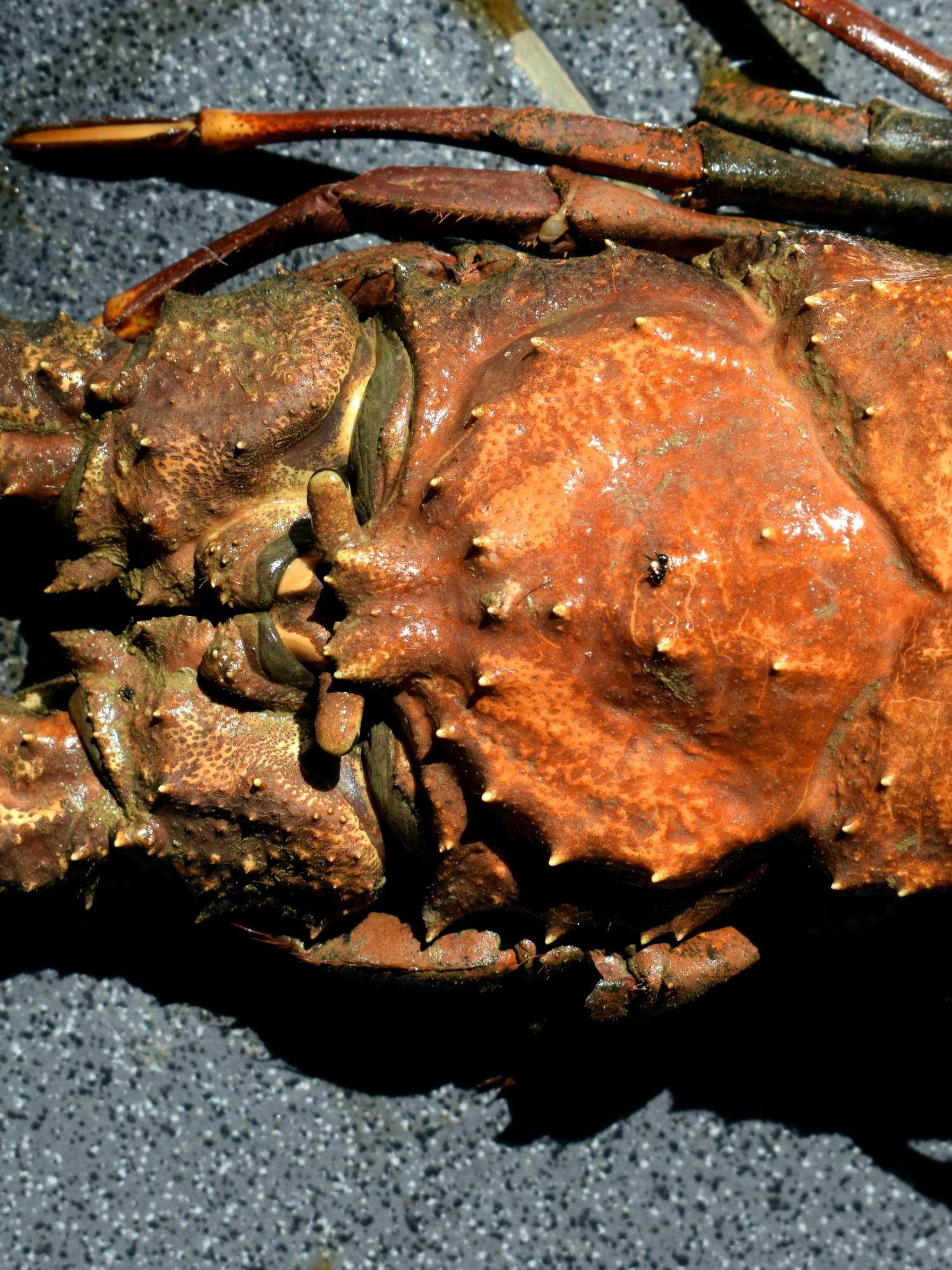 Indian Ocean spear lobster, Linuparus somniosus. Female, 134 mm CL (carapace length). From Palabuhanratu Fish Market, West Java, Indonesia. Anterior part of carapace, showing frontal horns above its eyes.